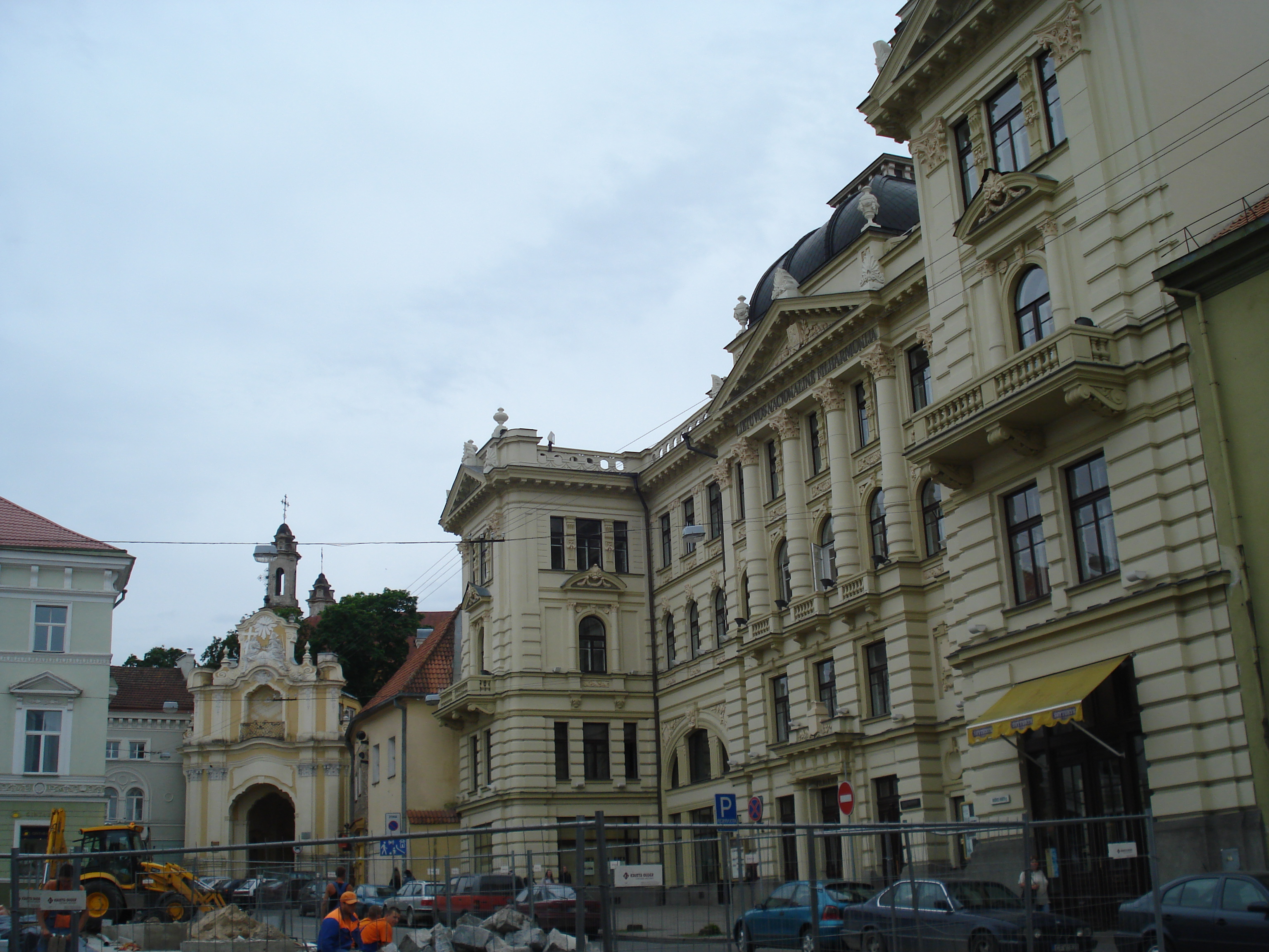 Gate of the Basilian (Uniate) monastery of the Holy Trinity and Lithuanian National Philharmony in Vilnius. Brama klasztoru Bazylianów i Filharmonija (Sala miejska) w Wilnie